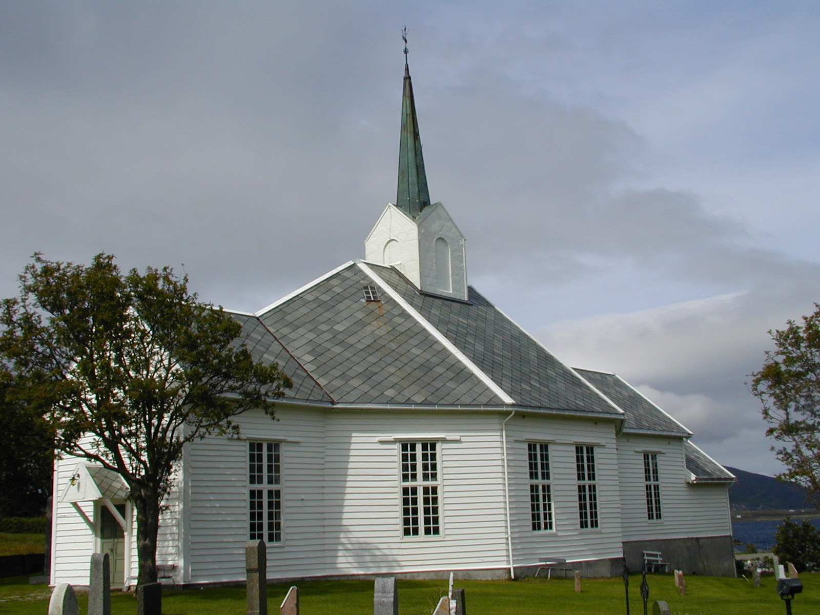 Haram kirke fra sørvest. Foto: Max Ingar Mørk. Fra Riksantikvarens Kulturminnebilder.